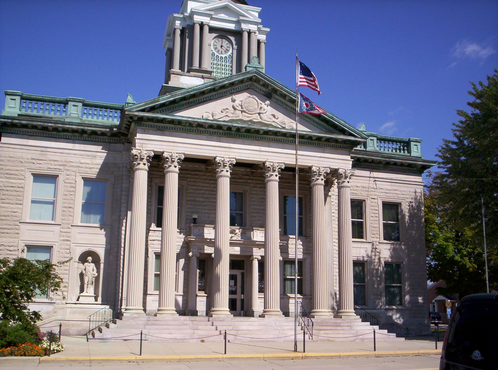 A view of the Crawford County Courthouse in downtown Bucyrus, Ohio.